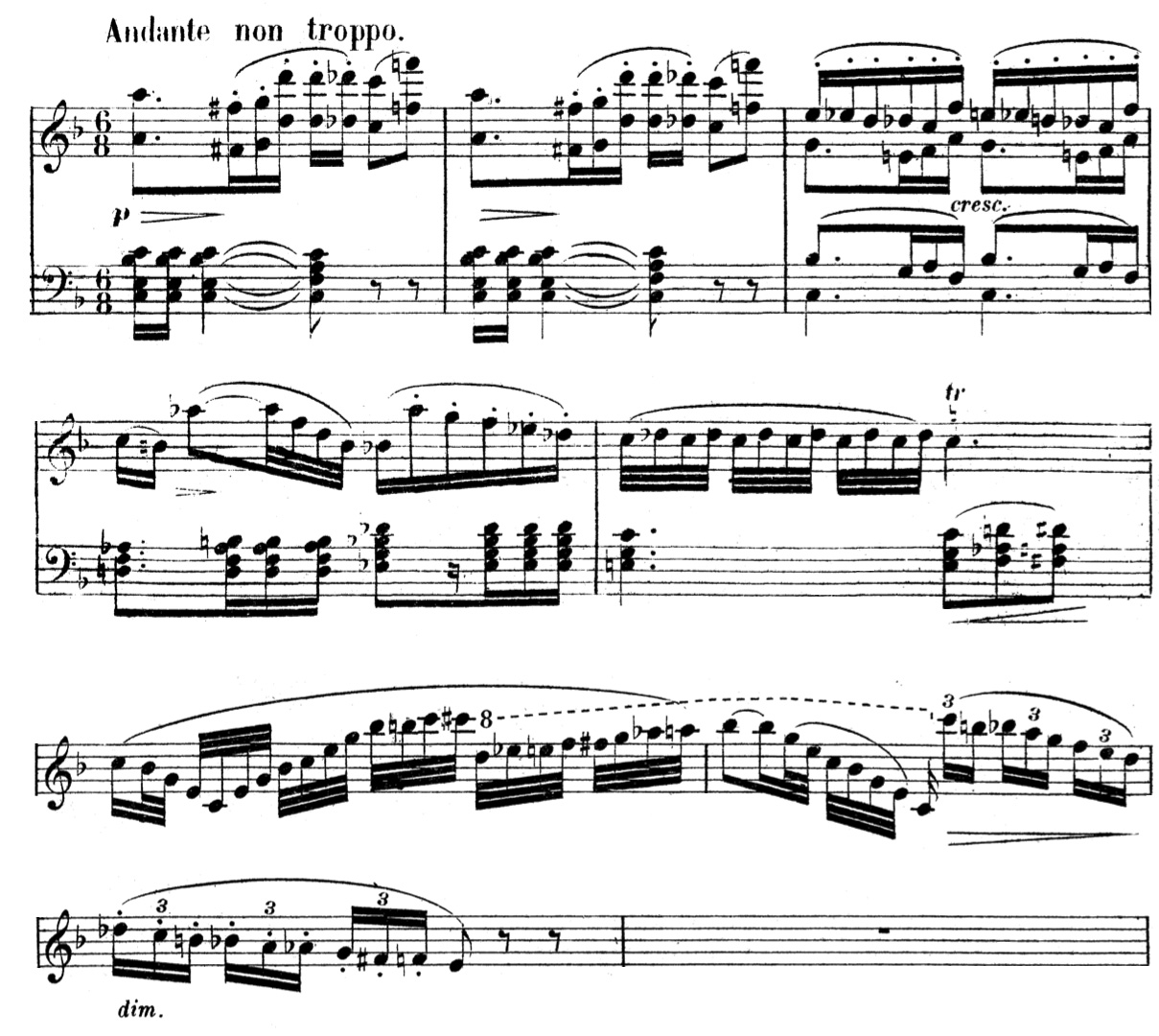 Musical score. Ophelia's Theme from Act 1, Scene 1 (extracted and edited from the piano-vocal score, pp. 26-27).